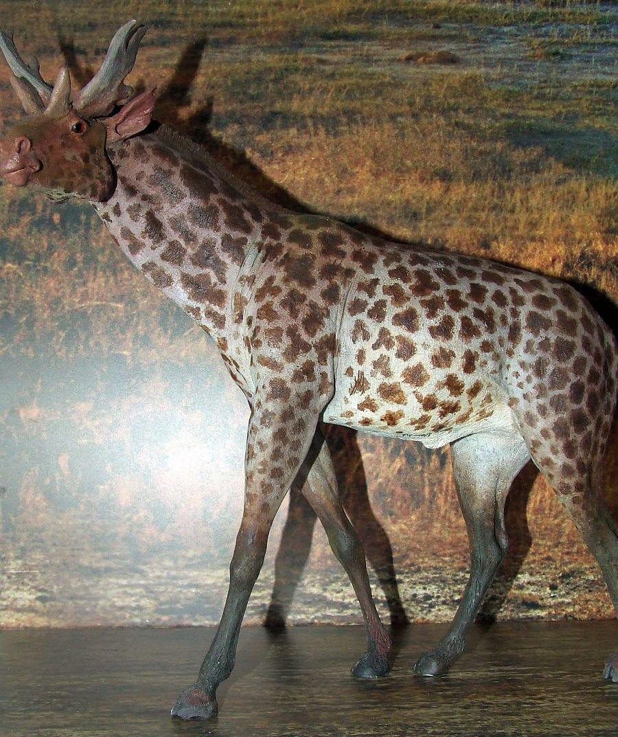 Sivatherium reconstruction, Muzeum Ewolucji PAN